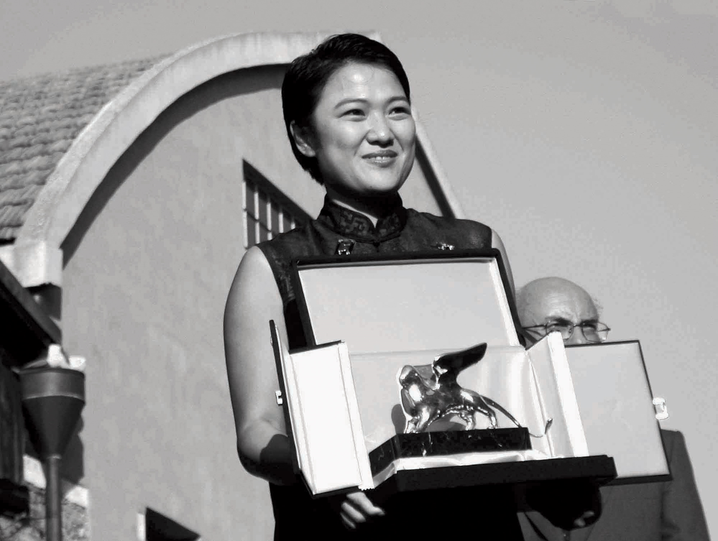 Zhang Xin as shown awarded 'Special Prize for an individual patron of architectural works' at the 8th International Architecture Exhibition of la Biennale di Venezia in September 2002. This was the first time a Biennale prize was awarded to a non-architect.